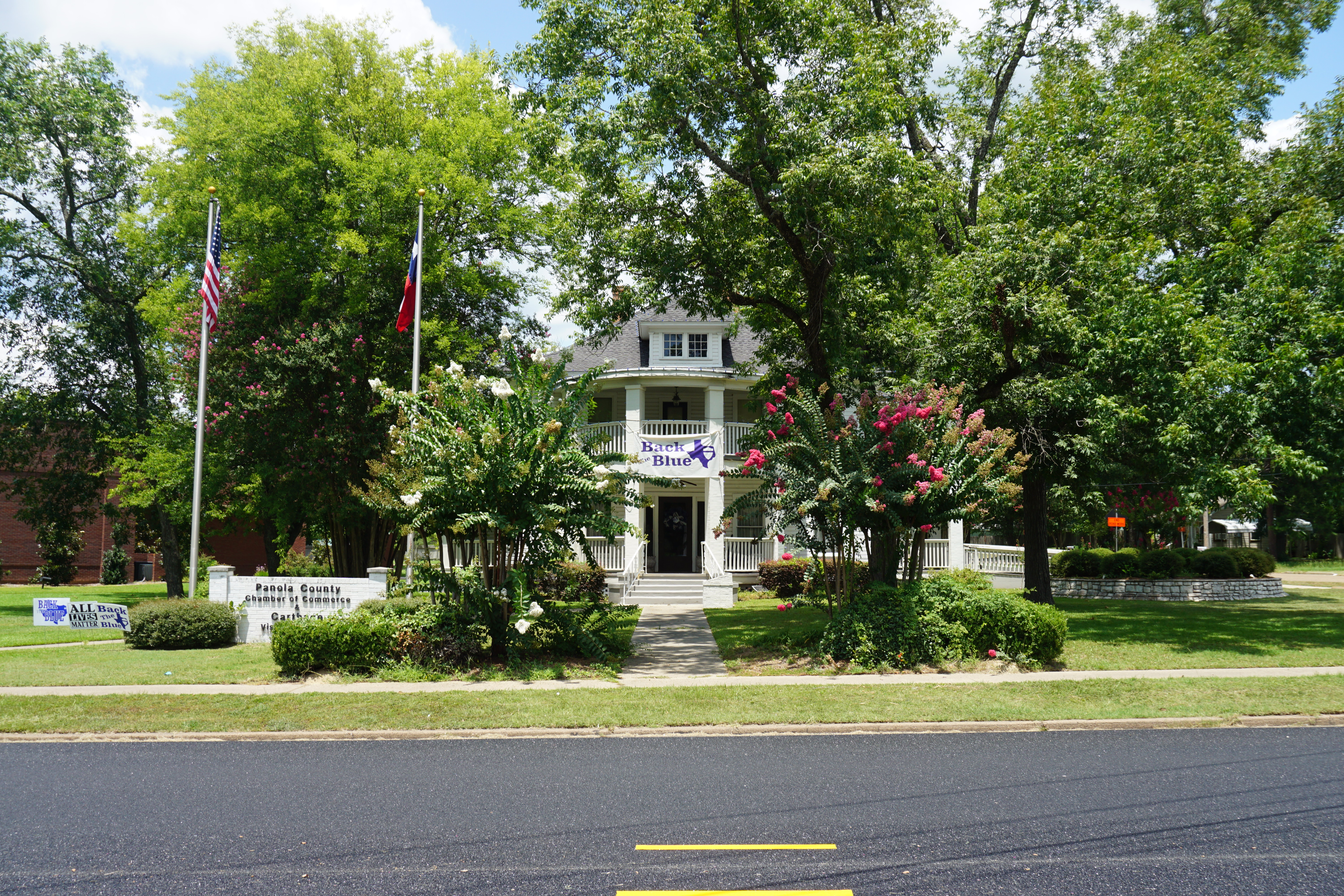 The Panola County Chamber of Commerce & Carthage Visitor's Bureau in Carthage, Texas (United States).